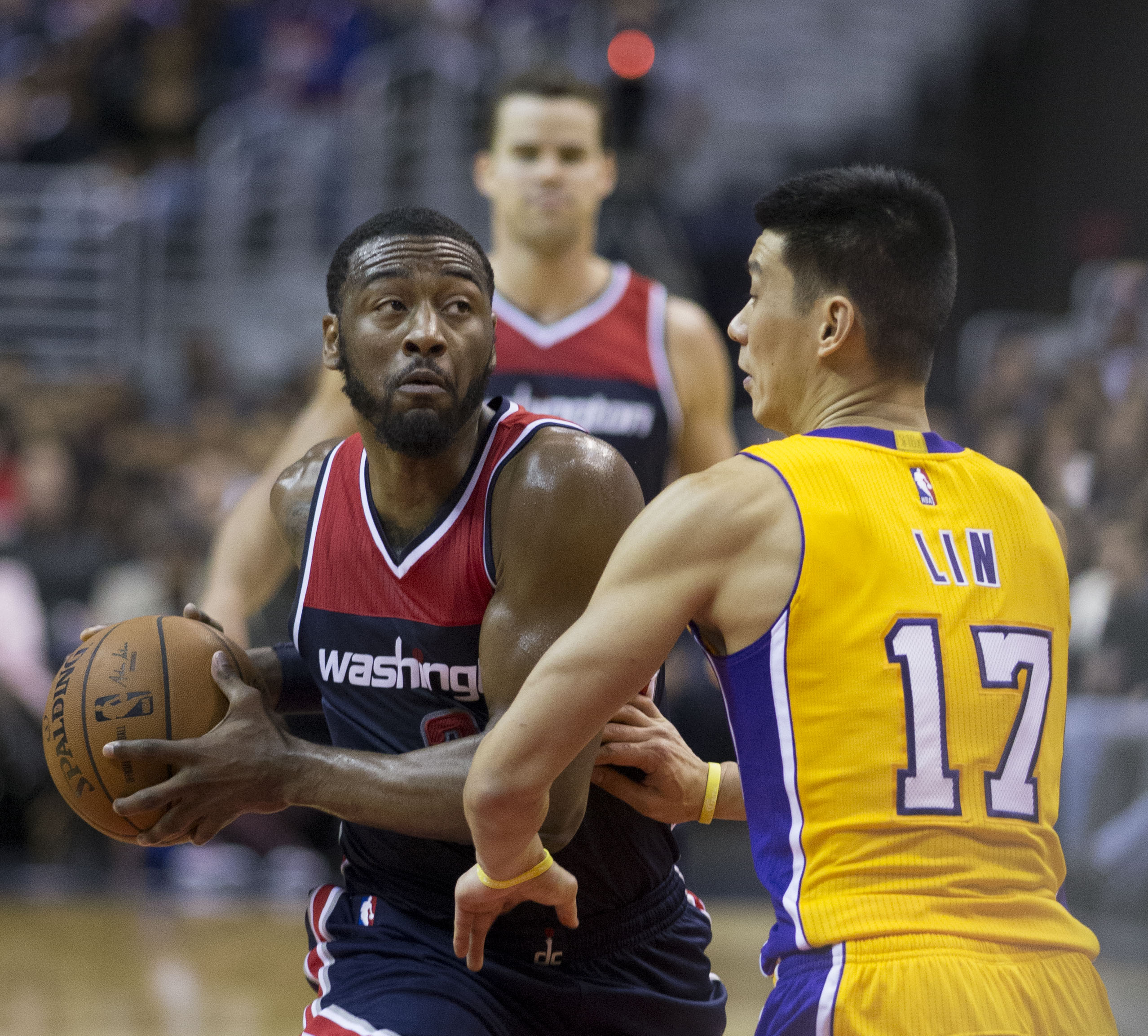 John Wall against Jeremy Lin